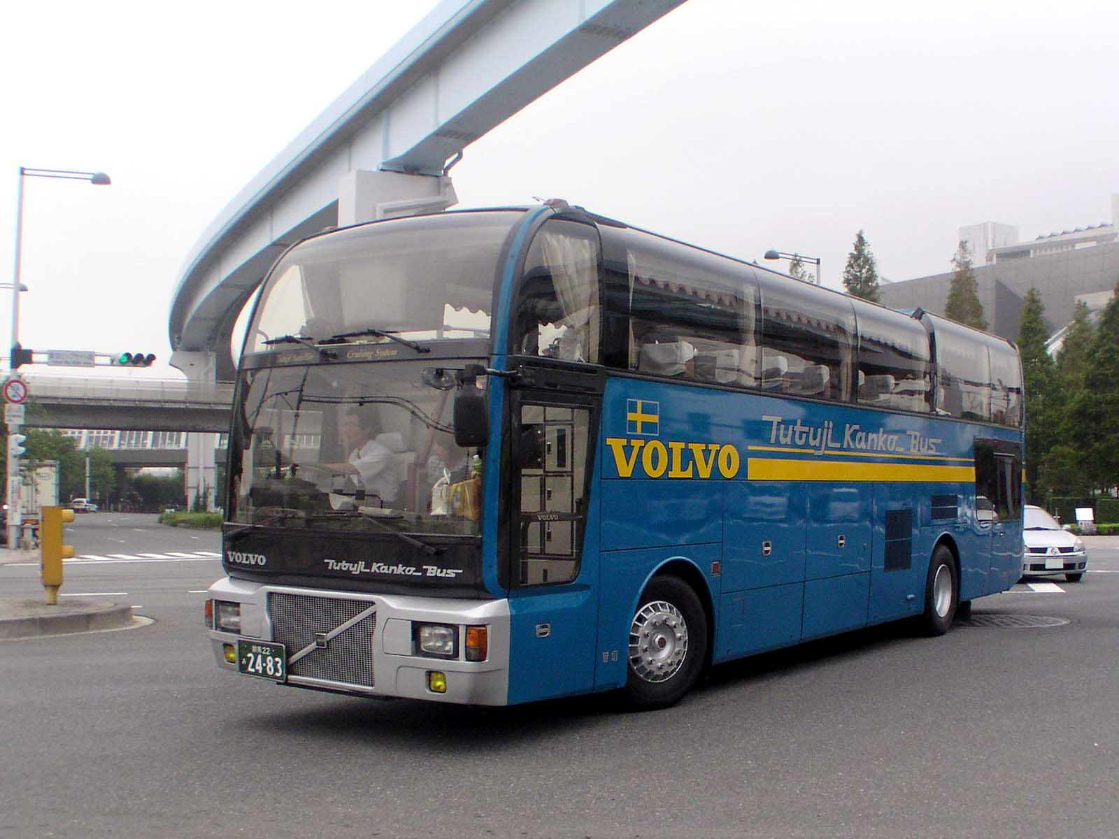 Fleet of Tutuji Kanko Bus. Model: Volvo B10M "Asterope" License plate: GMG22 A2483 Place: neighbour of Tokyo Big Sight, Koto Ward, Tokyo, Japan